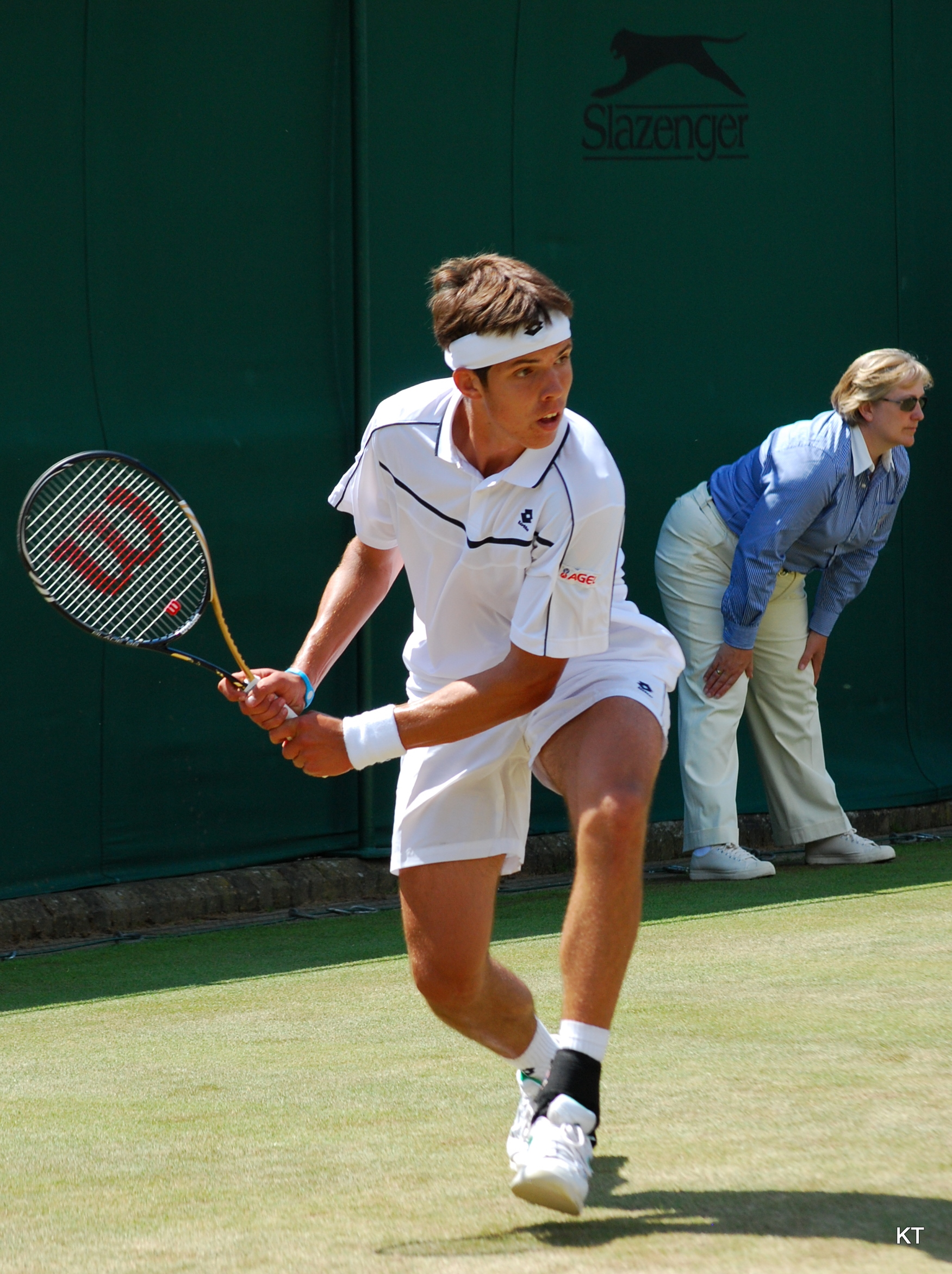 Jiri Vesely during his 3rd round match with Liam Broady. Day 9 of Wimbledon 2011.